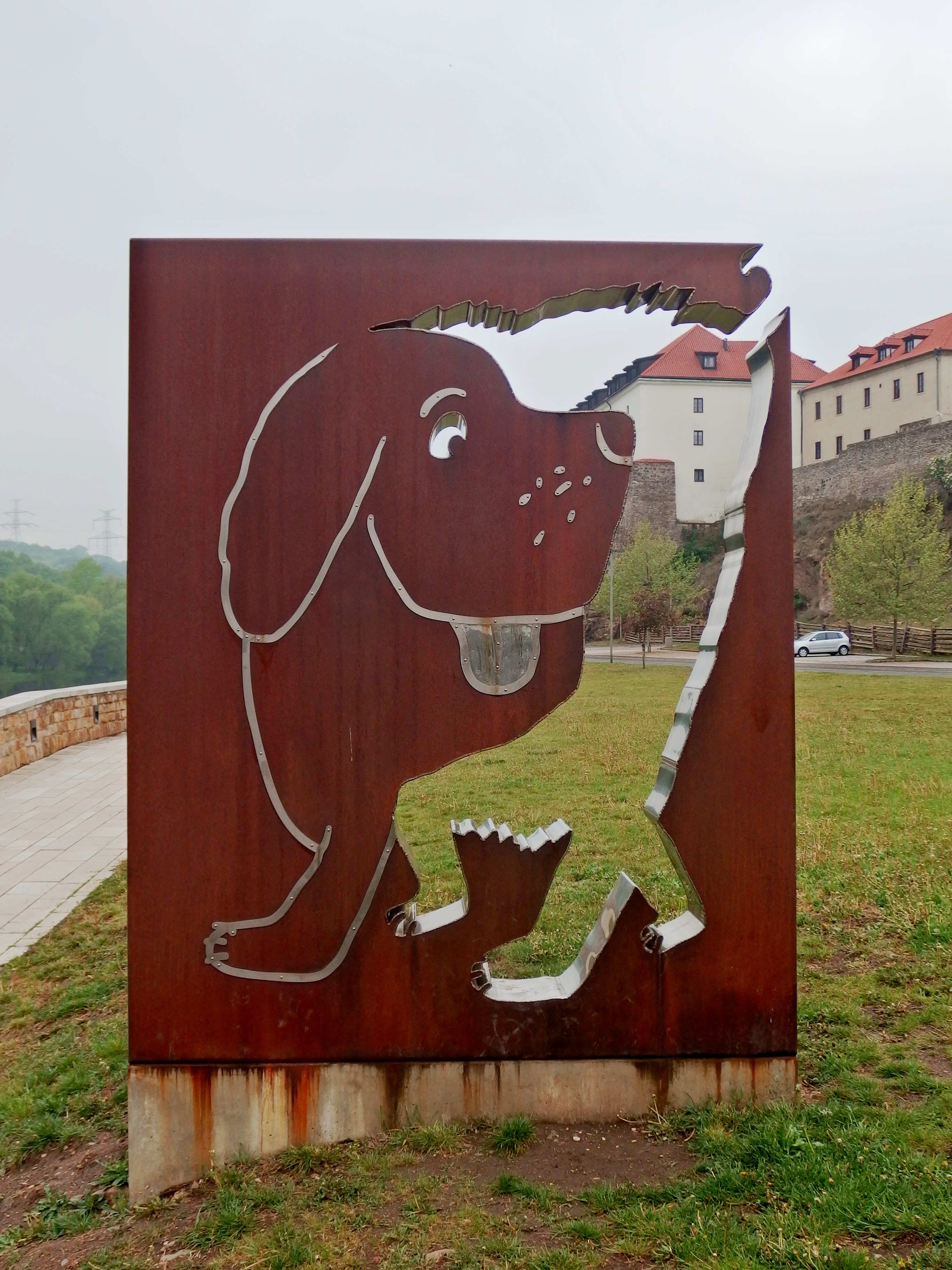 Kadaň, Chomutov District, Czechia.